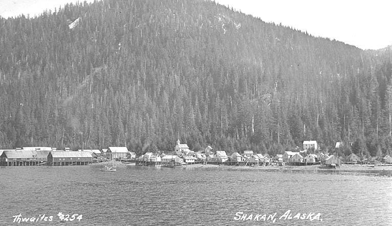 Caption on image: Shakan, Alaska PH Coll 247.595 Subjects (LCSH): Shakan (Alaska); Villages--Alaska--Shakan; Docks--Alaska--Shakan